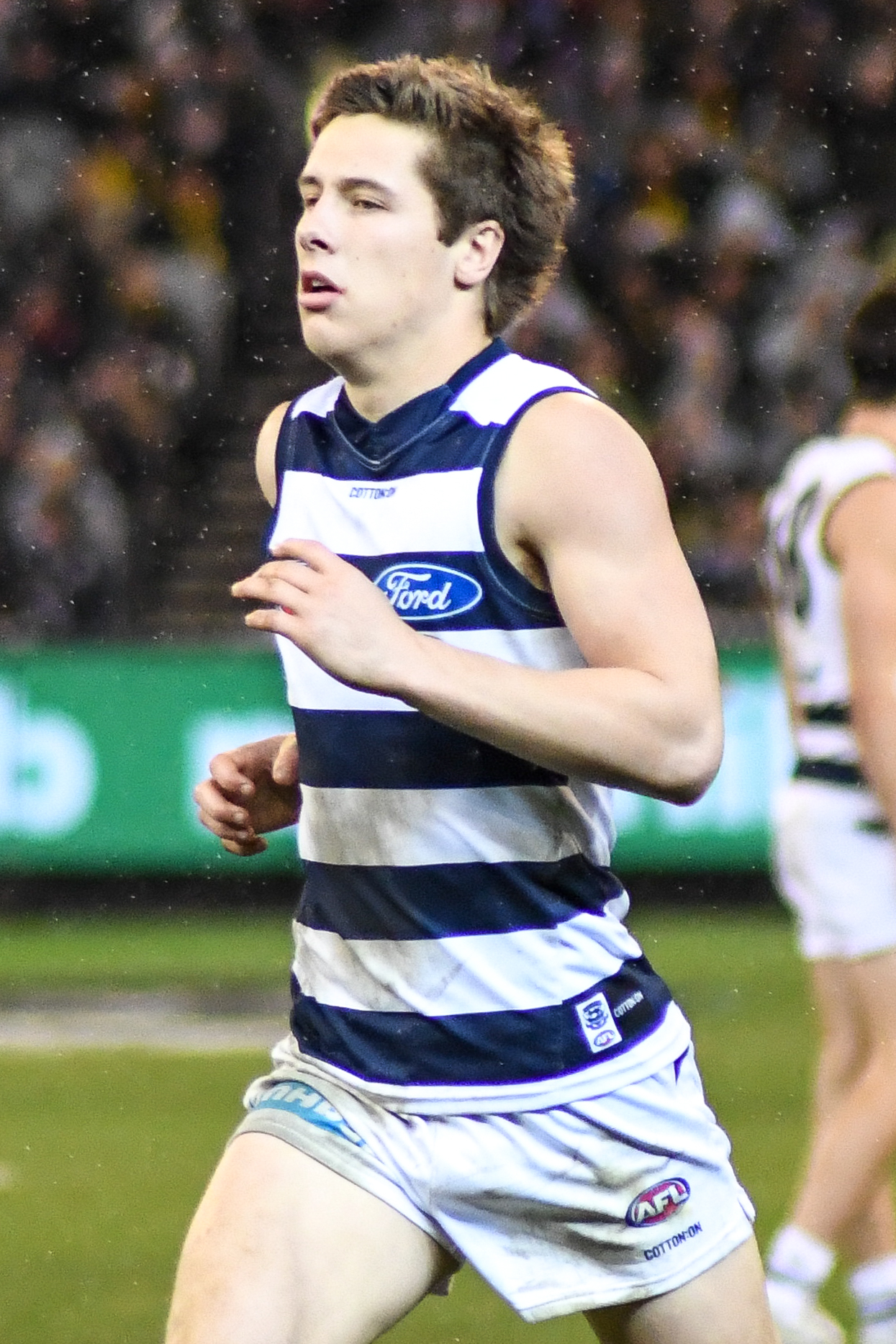 Lachie Fogarty of Geelong during the 2018 AFL round 20 match between Richmond and Geelong at the Melbourne Cricket Ground on Friday, 3 August 2018 in Melbourne, Victoria.